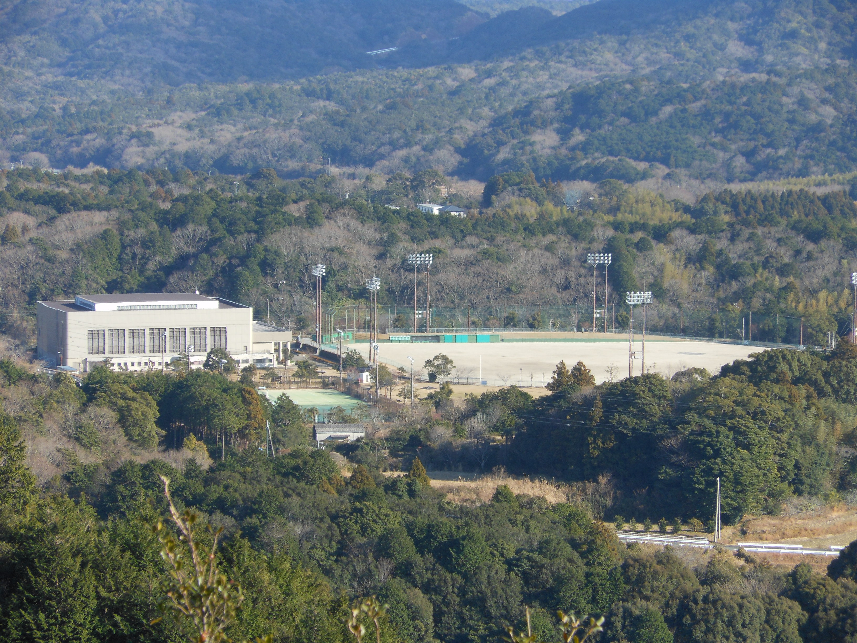 This is a sports park in Shima, Mie, Japan. This photo was taken from Oumu Rock, which is in Isobecho-Erihara.